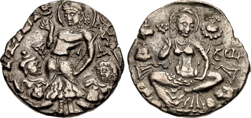 Post-Kushan Gandhara Kidara Shahis Sri Pravarasena Circa 6th-early 7th century CE